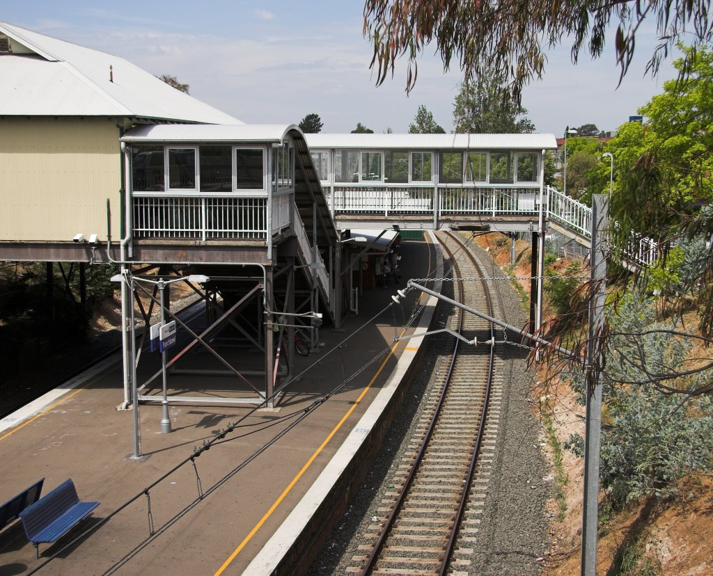 Punchbowl Station, Sydney. Taken by blu3d, 27 Oct 2006.